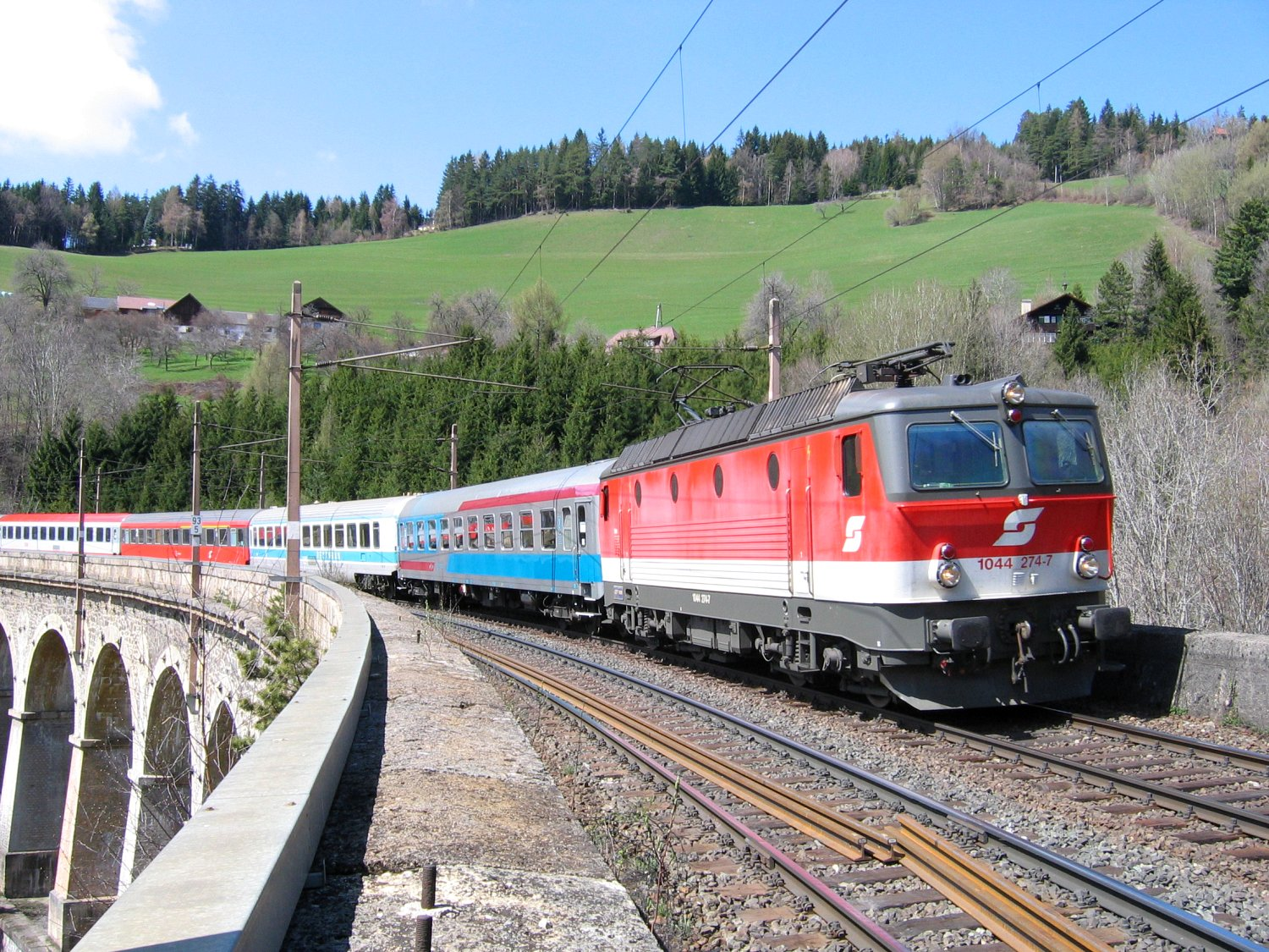 ÖBB 1044 274-7 with Express train from Croatia passing a viaduct on the Semmering railway line in Lower Austria